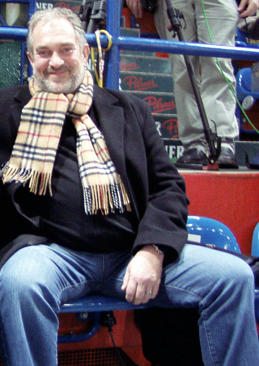 Reinhard Mirmseker at the German Figure Skating Championships 2006 in Berlin. The photo was taken with his kind permission. (Thank you again)